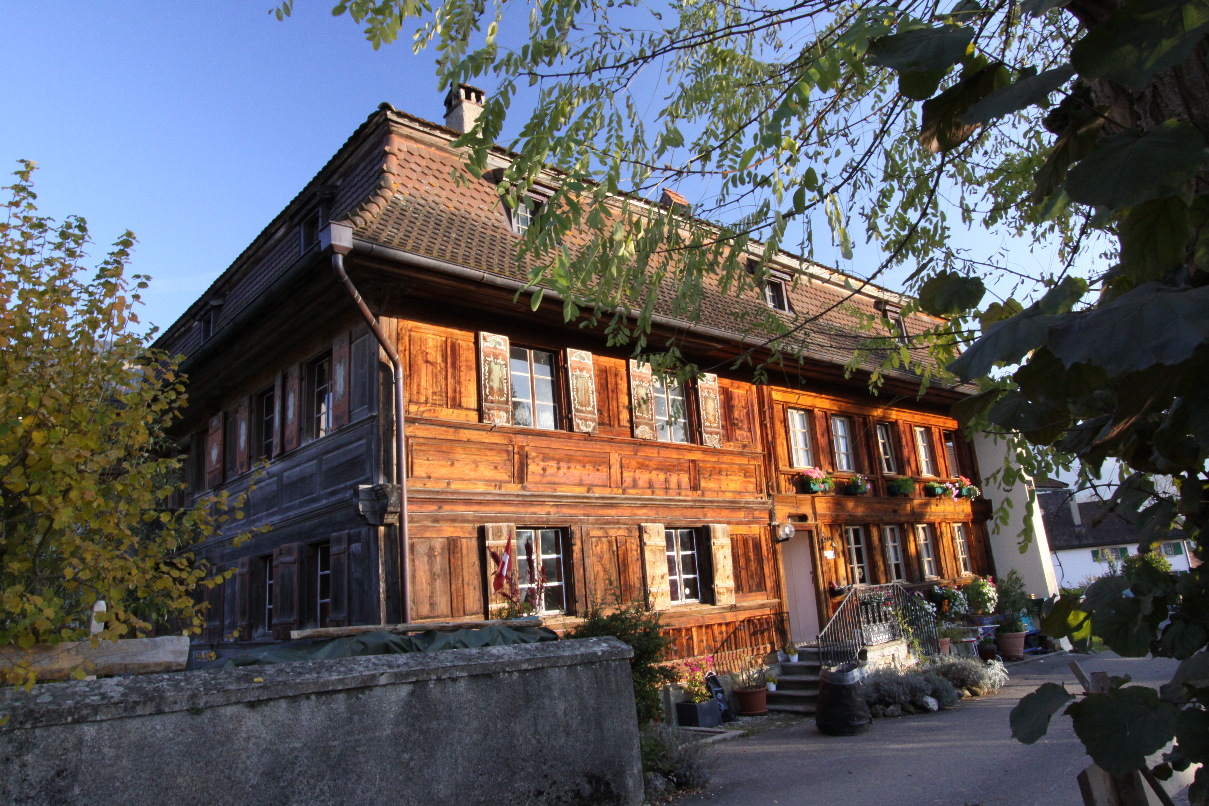 Repond House, Au Village 169, Villarvolard